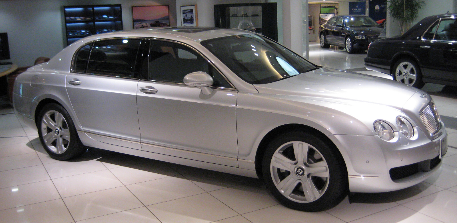 Bentley Continental Flying Spur in Cornes Aoyama Showroom